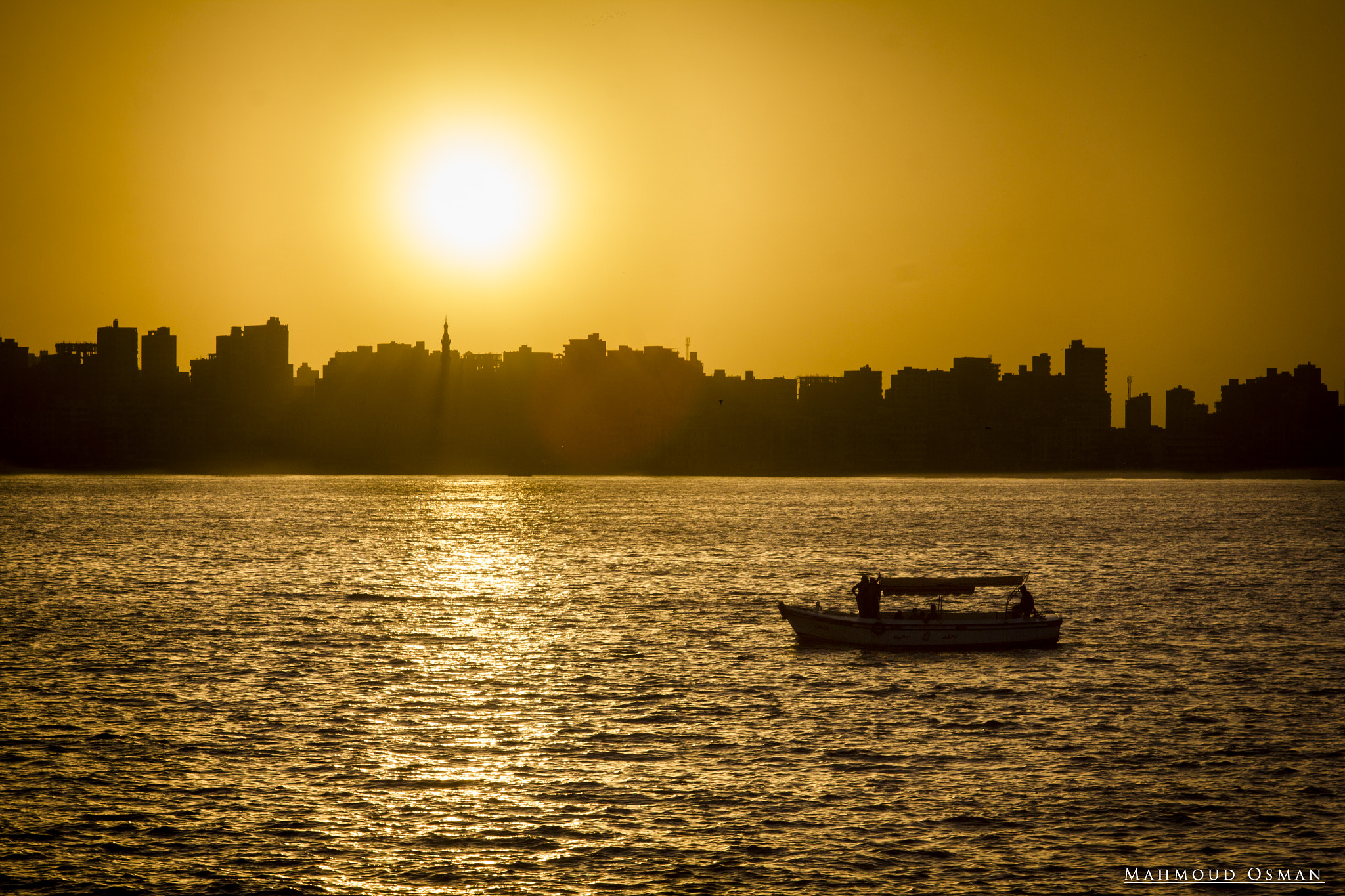 500px provided description: Alexandria Under Sunset [#Canon ,#Sunset ,#Boat ,#Sea ,#Egypt ,#Alexandria ,#Mediterranean ,#Juptier]